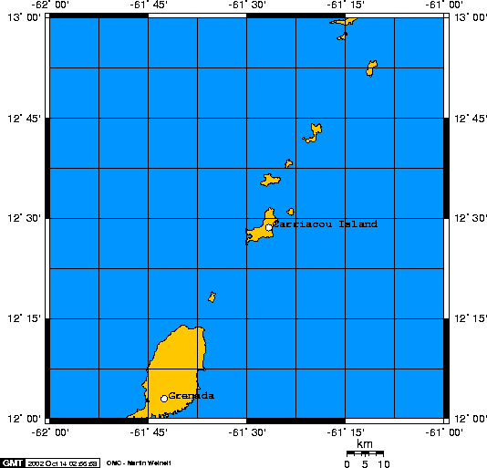 Carriacou Island map. Created using PD and GFDL sources: US Government datasets, GMT software, and GIMP in Linux: GMT is an open source collection of ~60 tools for manipulating geographic and Cartesian data sets (including filtering, trend fitting, gridding, projecting, etc.) and producing Encapsulated PostScript File (EPS) illustrations ranging from simple x-y plots via contour maps to artificially illuminated surfaces and 3-D perspective views. GMT supports ~30 map projections and transformations and comes with support data such as coastlines, rivers, and political boundaries. GMT is developed and maintained by Paul Wessel and Walter H. F. Smith with help from a global set of volunteers, and is supported by the National Science Foundation. It is released under the GNU General Public License ... data from the US national data centers (NOAA, USGS, NGDC, NEIC) can be used with GMT, and they are all freely available from these centers and individuals via the internet ... See locator map